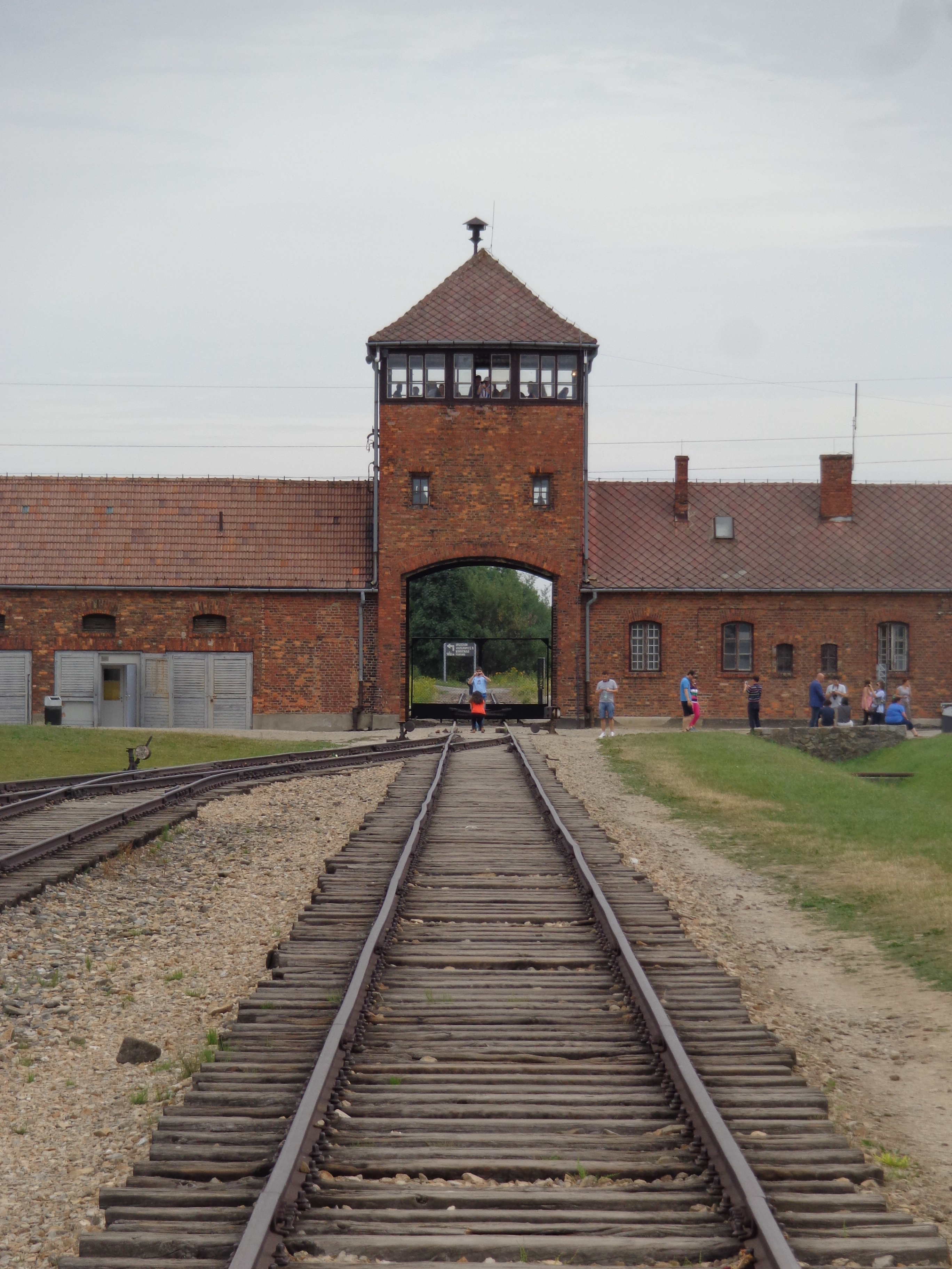 Birkenau concentration camp